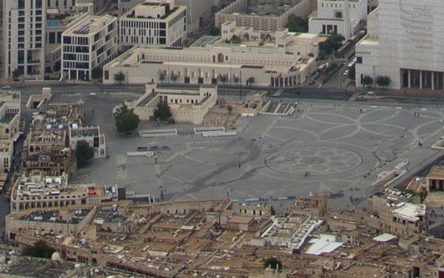 A U.S. Air Force F-15E Strike Eagle assigned to the 494th Expeditionary Fighter Squadron, conducts a formation fly over honoring Qatar National Day, Doha, Qatar Dec. 18, 2019. Qatar National Day is an annual holiday for Qataris to commemorate their national identity and history, and allows them to remember how their national unity was achieved. This year’s Qatar National Day celebration included a parade featuring massive fire work displays, military aircraft flyovers, and many other demonstrations of national unity. (U.S. Air Force Photo by SSgt Bethany La Ville)